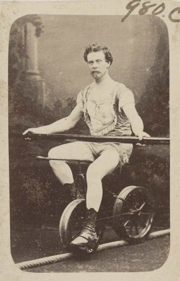 Original caption: [One of] 4 portrait photographs, full-length, carte de visite size, of the "Australian Blondin", otherwise known as Henri L'estrange. Shows him in performance attire, in various poses on tightrope. He was a tightrope performer who adopted the name "Blondin" after an earlier French performer. He successfully completed a Middle Harbour tighrope crossing in Sydney, 1877 and in 1879 began ballooning experiments in Melbourne. He was reported to have been born in Fitzroy but little is known of his life.